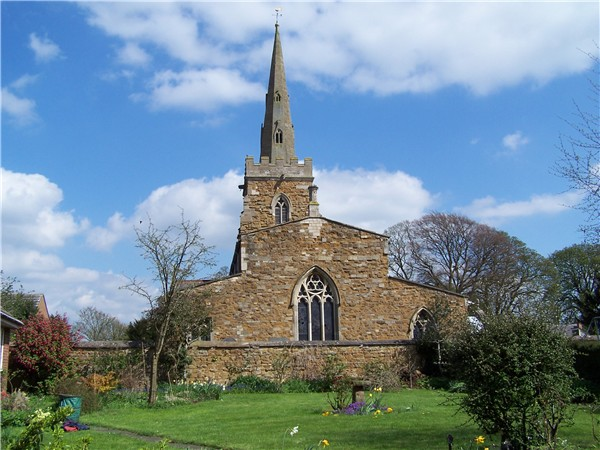 All Saints' parish church, Somerby, Leicestershire, seen from the west